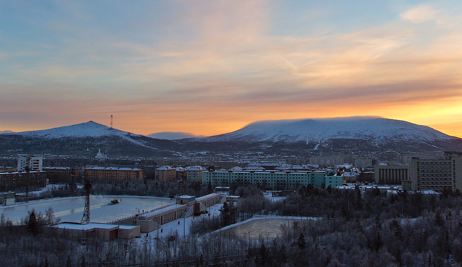 City of Monchegorsk. Looking south, toward Mt. Moncha (left) and Mt. Nyud (right). The picture must have been taken around noon in mid-winter, during the Polar night, when there is some sunlight coming from the south, but no actual sunrise happens.